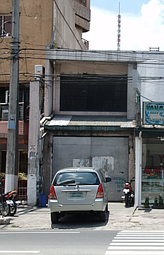 Site of the abandoned Ozone Disco in Quezon City, where a 1996 fire killed over 160 persons.